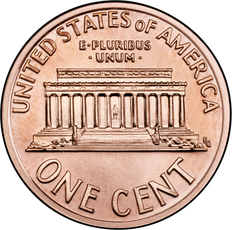 Removed background, cropped, and converted to PNG with Macromedia Fireworks. This image depicts a unit of currency issued by the United States of America. If Fraudulent use of this image is punishable under applicable counterfeiting laws. As listed by the United States Secret Service at money illustrations, the Counterfeit Detection Act of 1992, Public Law 102-550, in Section 411 of Title 31 of the Code of Federal Regulations (31 CFR 411), permits color illustrations of U.S. currency provided:1. The illustration is of a size less than three-fourths or more than one and one-half, in linear dimension, of each part of the item illustrated;2. The illustration is one-sided; and3. All negatives, plates, positives, digitized storage medium, graphic files, magnetic medium, optical storage devices, and any other thing used in the making of the illustration that contain an image of the illustration or any part thereof are destroyed and/or deleted or erased after their final use. Certain coins contain copyrights licensed to the U.S. Mint and owned by third parties or assigned to and owned by the U.S. Mint [1]. For the United States Mint circulating coin design use policy, see [2]; for the policy on the 50 State Quarters, see [3]. Also: COM:ART #Photograph of an old coin found on the Internet